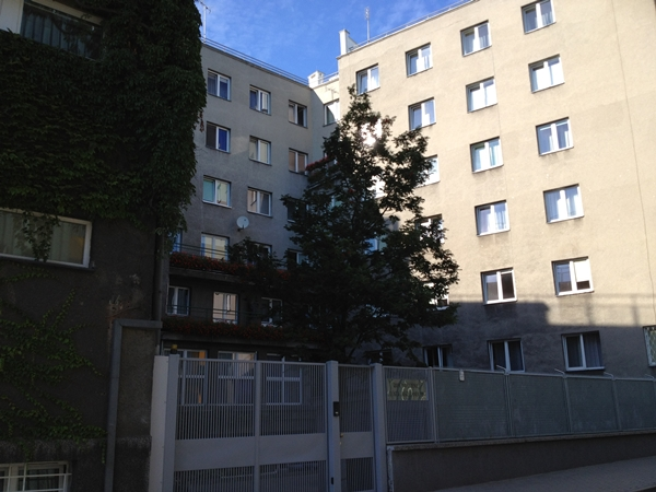 House of the Congregation of the Ursuline Sisters of the Agonizing Heart of Jesus in Warsaw, ul. Wiślana 2